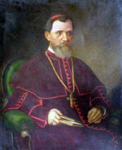 Mihail Pavel (1827–1902), Bishop of the Diocese of Lugoj of the Romanian Greek Catholic Church from 1872 to 1879 Bishop of the Diocese of Oradea Mare of the Romanian Greek Catholic Church from 1879 to 1902.